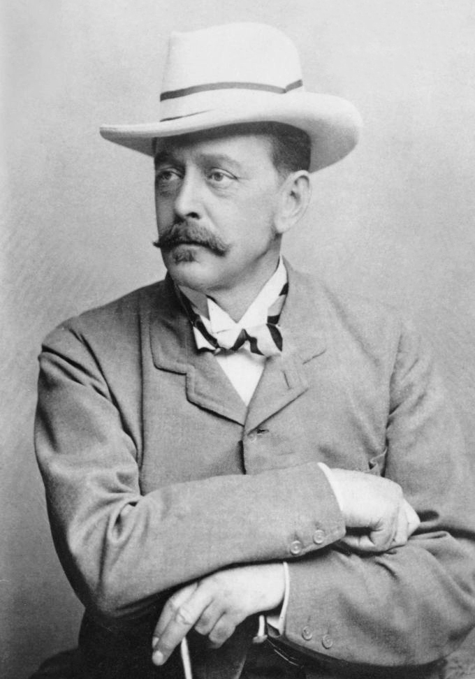 George Harris, 4th Baron Harris